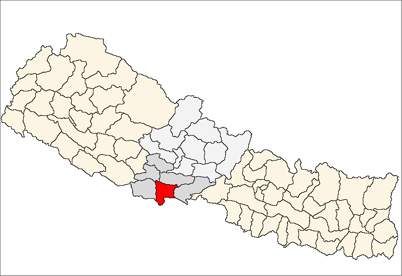 FrenchCarte de localisation dudistrict de Rupandehi(wp-FR),au Népal (wp-FR).EnglishLocation map ofRupandehi District(wp-EN),in Nepal (wp-EN).